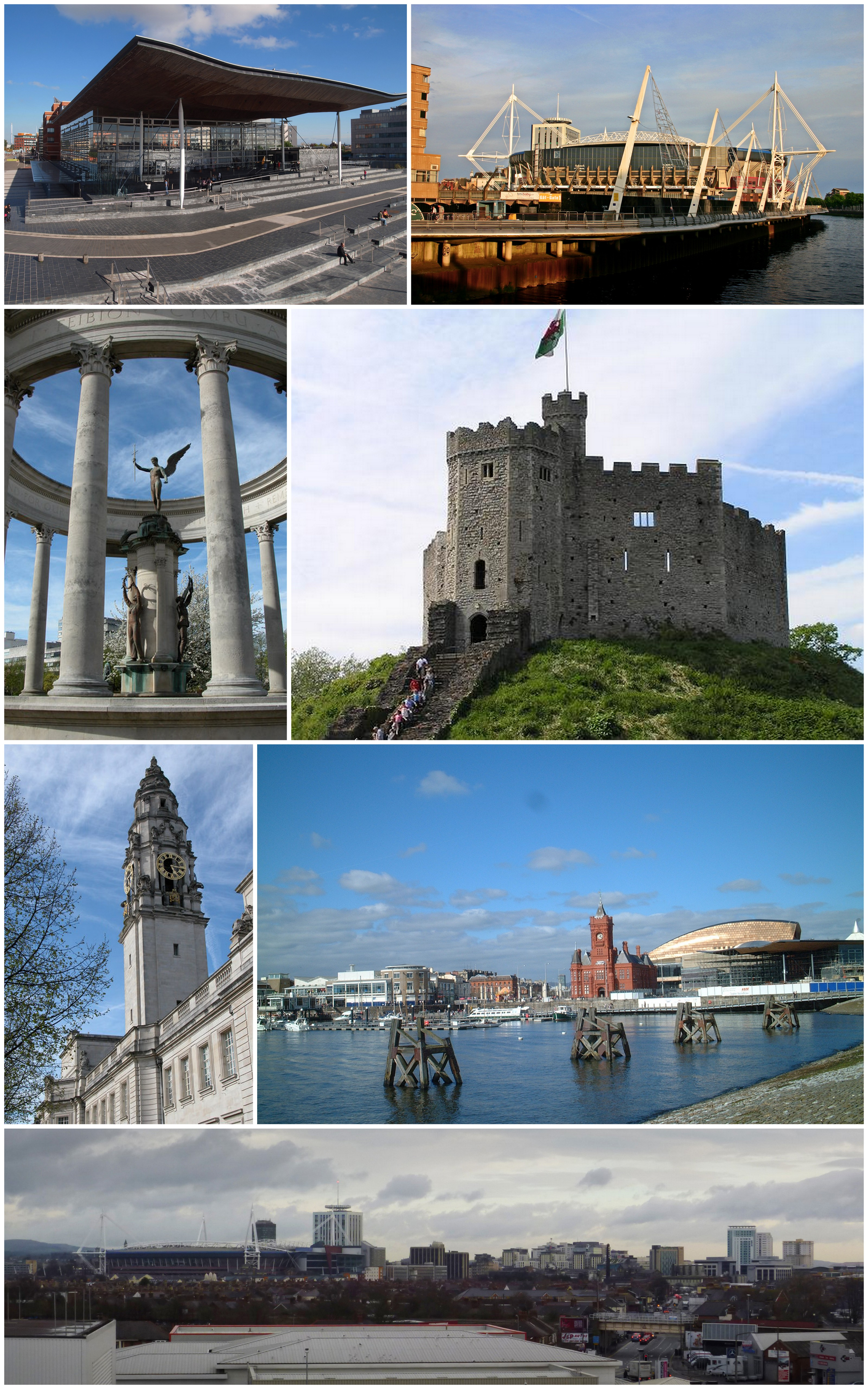 A montage of images of Cardiff